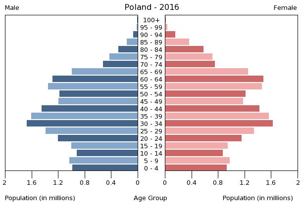 The population pyramid of Poland illustrates the age and sex structure of population and may provide insights about political and social stability, as well as economic development. The population is distributed along the horizontal axis, with males shown on the left and females on the right. The male and female populations are broken down into 5-year age groups represented as horizontal bars along the vertical axis, with the youngest age groups at the bottom and the oldest at the top. The shape of the population pyramid gradually evolves over time based on fertility, mortality, and international migration trends.